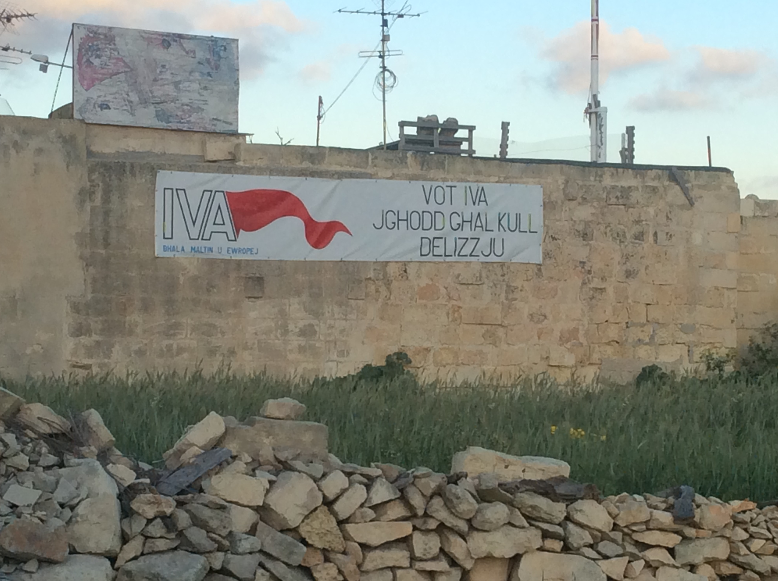 Banner in favour of spring hunting in Naxxar road, Iva Malta Kacca, Spring Hunting